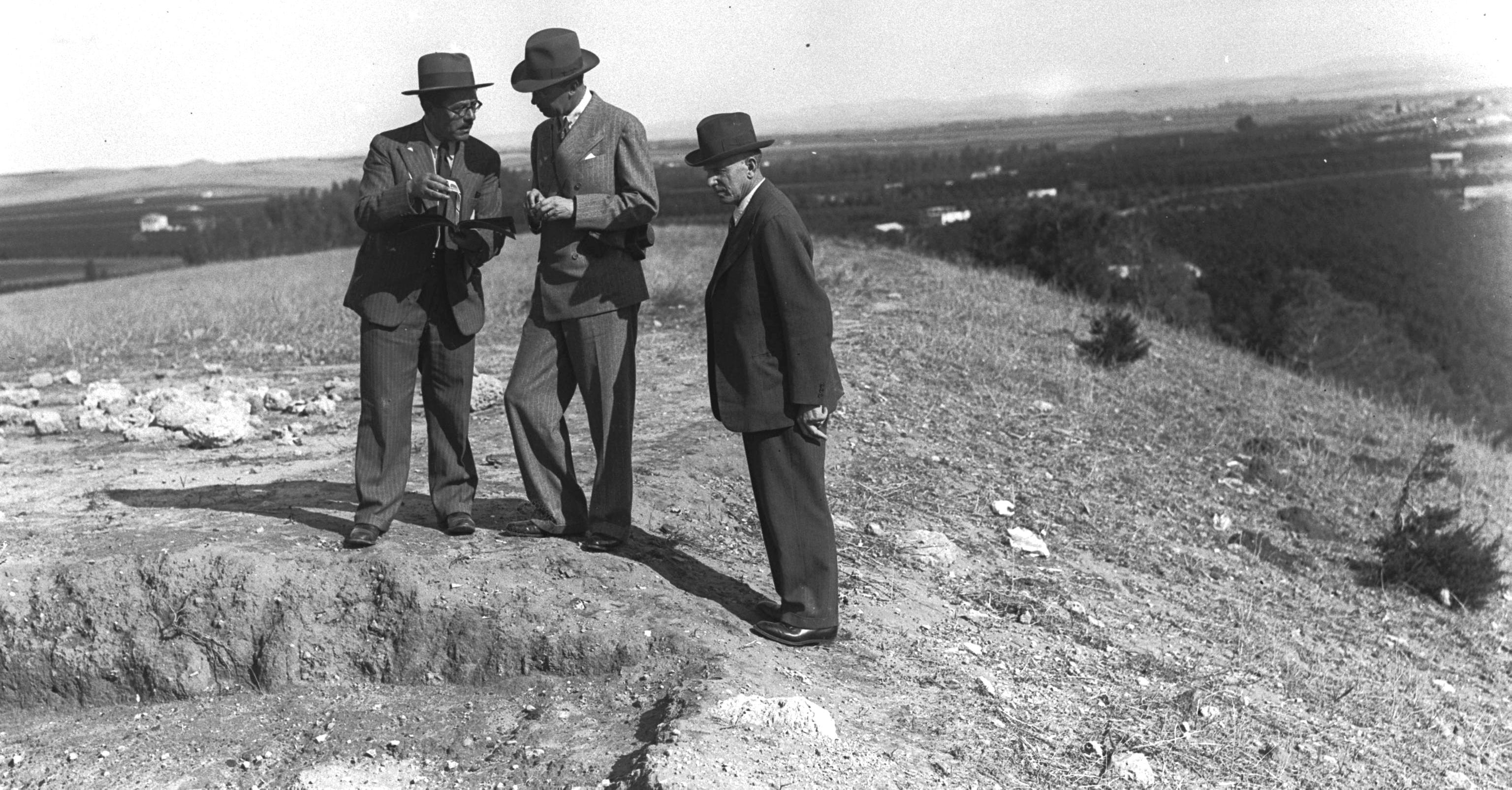 THE ARCHAEOLOGIST PROF. ELIEZER SUKENIK WITH THE SWEDISH CROWN PRINCE GUSTAV ADOLF & THE SWEDISH CONSUL AT "NAPOLEON HILL" IN RAMAT GAN.